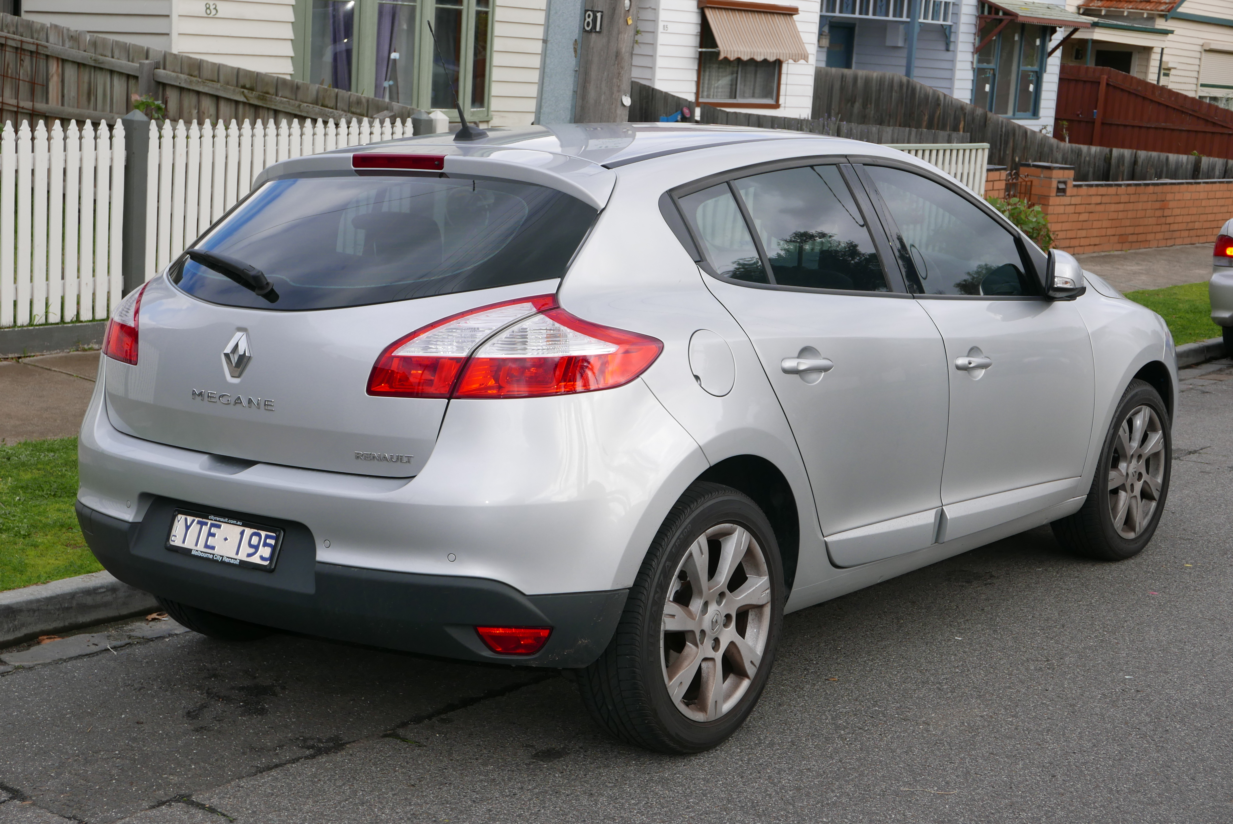 2011 Renault Mégane (B32) Privilege hatchback. Photographed in Thornbury, Victoria, Australia. Vehicle registration enquiry results Jurisdiction Victoria Registration YTE195 Chassis code VF1BZAC0TB0665774 Engine code M4R751N120582 Compliance date 2011-10 Year of manufacture 2011